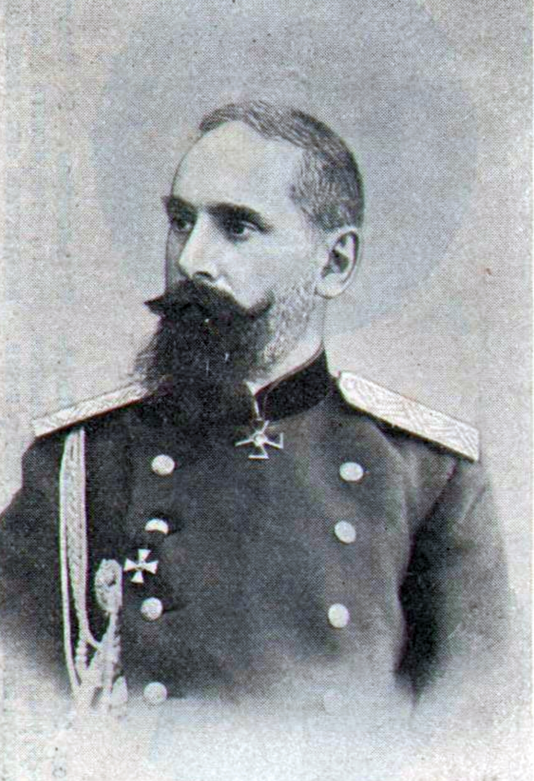 Subbotich, Deyan Ivanovich